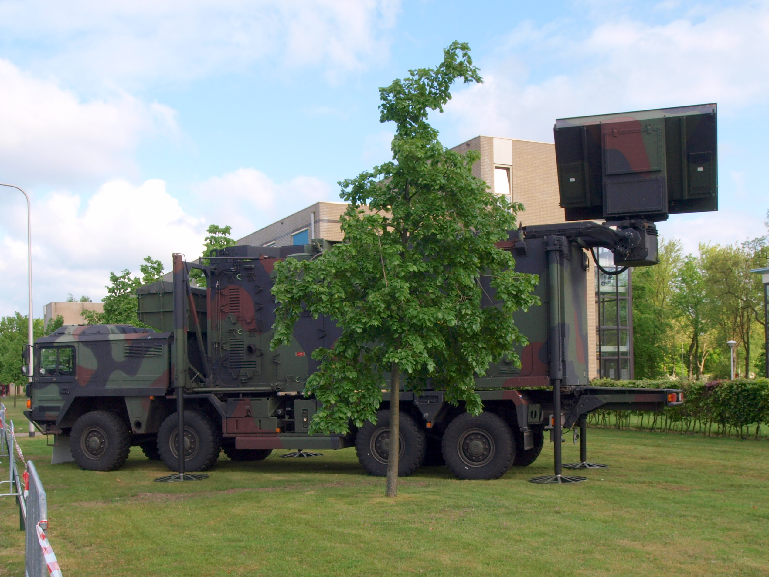 Photographed at the Open house / Open door Landmachtdagen 2012 in Oirschot the Netherlands. TRML -Telefunken Radar Mobil Luftraumüberwachung on MAN truck